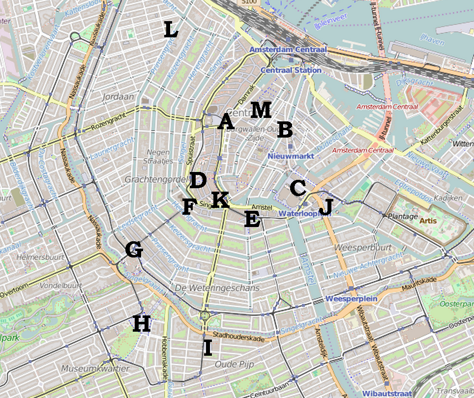 Amsterdam map indicating squares. The font used is Bookman Old Style for anyone who wants to add letters. A - Dam Square B - Nieuwmarkt C - Waterlooplein D - Spui E - Rembrandtplein F - Koningsplein G - Leidseplein H - Museumplein I - Marie Heinekenplein J - Markenplein K - Muntplein L - Noordermarkt M - Oudekerksplein